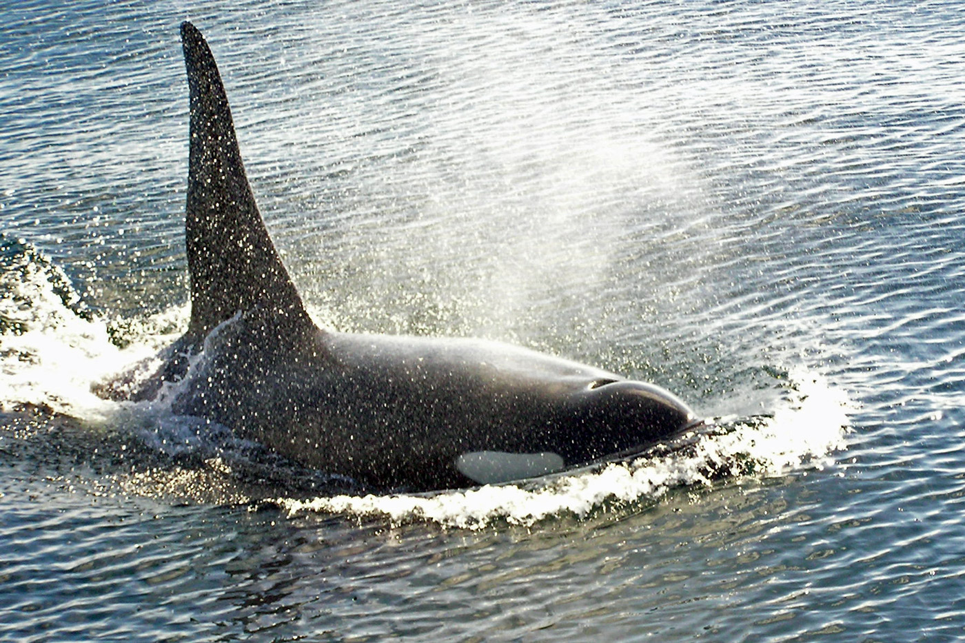 Shot from a boat around Victoria (West-Canada). The killerwhale swom under the boat.